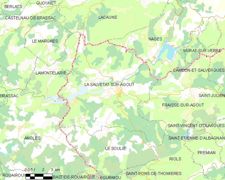 Map commune FR insee code 34293.png - La Salvetat-sur-Agout